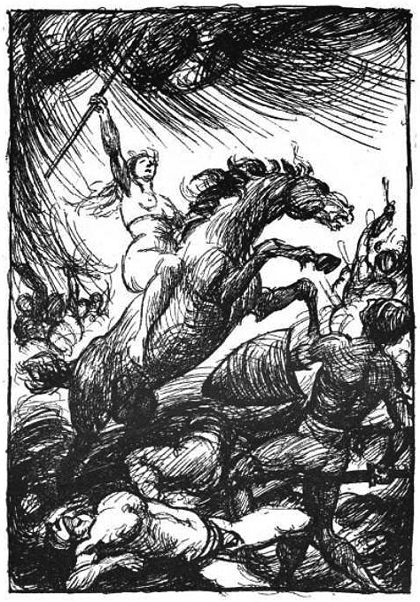 A depiction of Brynhildr (1919) by Robert Engels. Title not given in work.